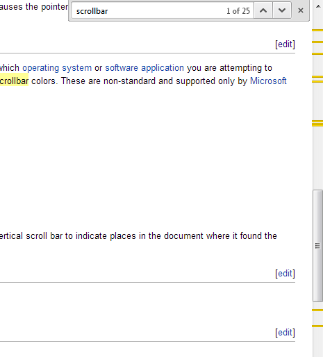 Trough mark in scrollbar for browser search for the Google Chrome browser